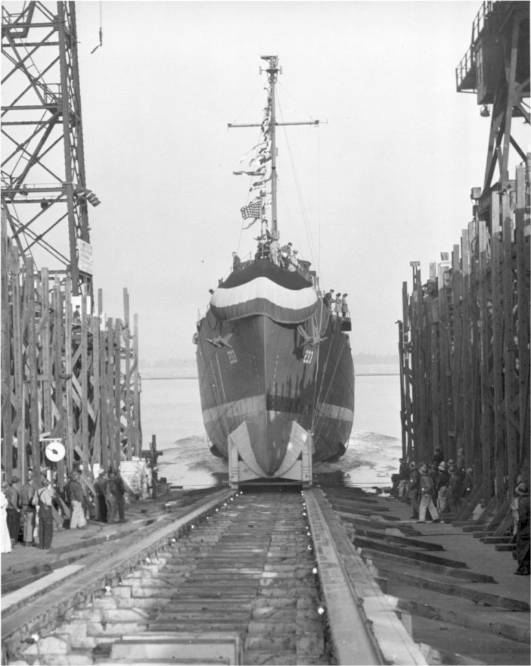 United States Navy destroyer escort USS Register (DE-233) is launched at Charleston Navy Yard, Charleston, South Carolina